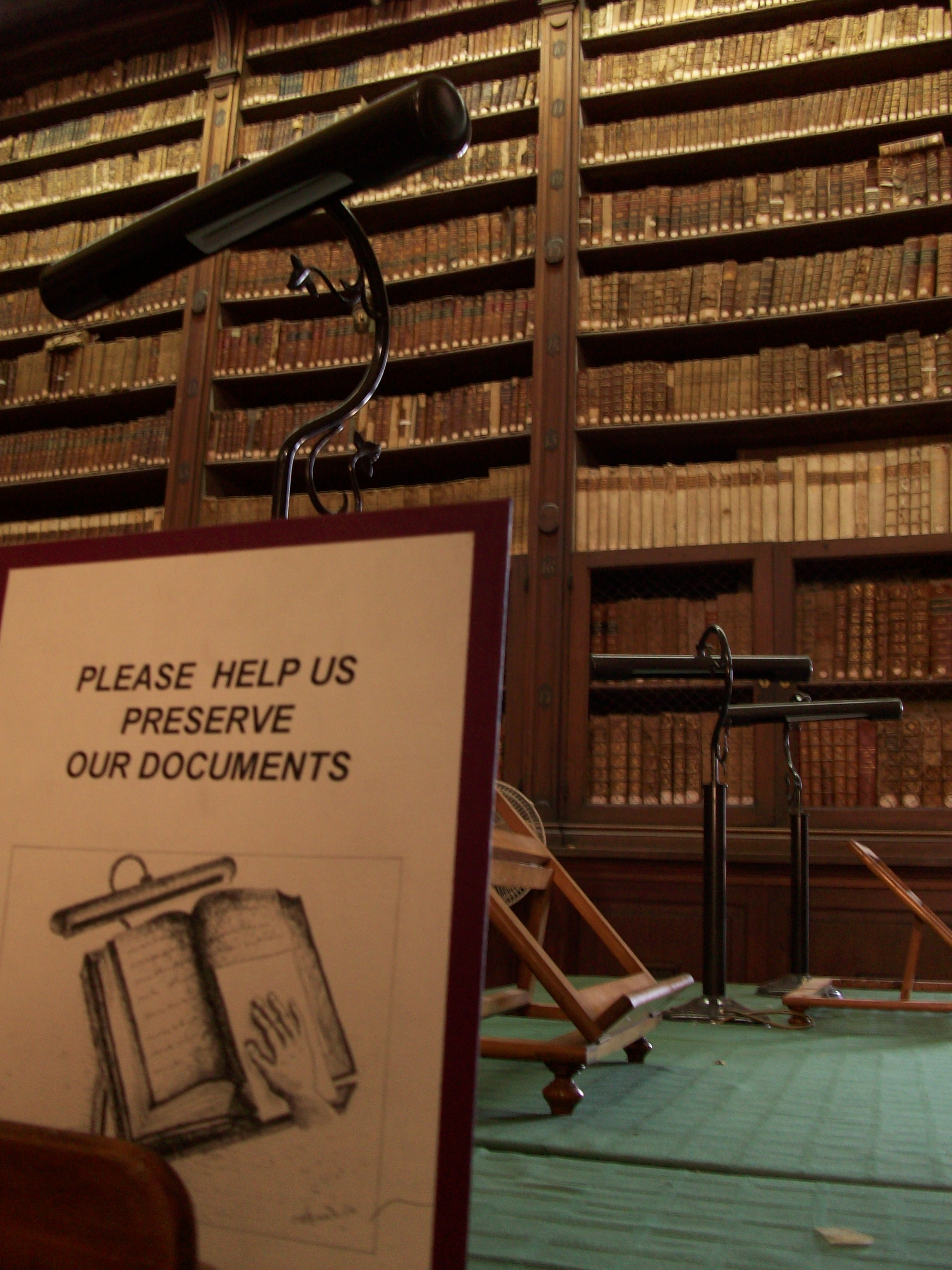 Inside Malta's National Library, Valletta